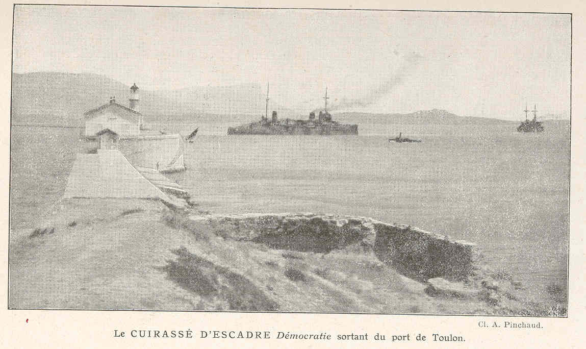 Cuirasse d'Escadre Democratie sortant du port de Toulon Subject: Ironclads, Armored vessels, Democratie (Ironclad), Toulon (France) Geographic Subject: France--Toulon Tag: Vessels